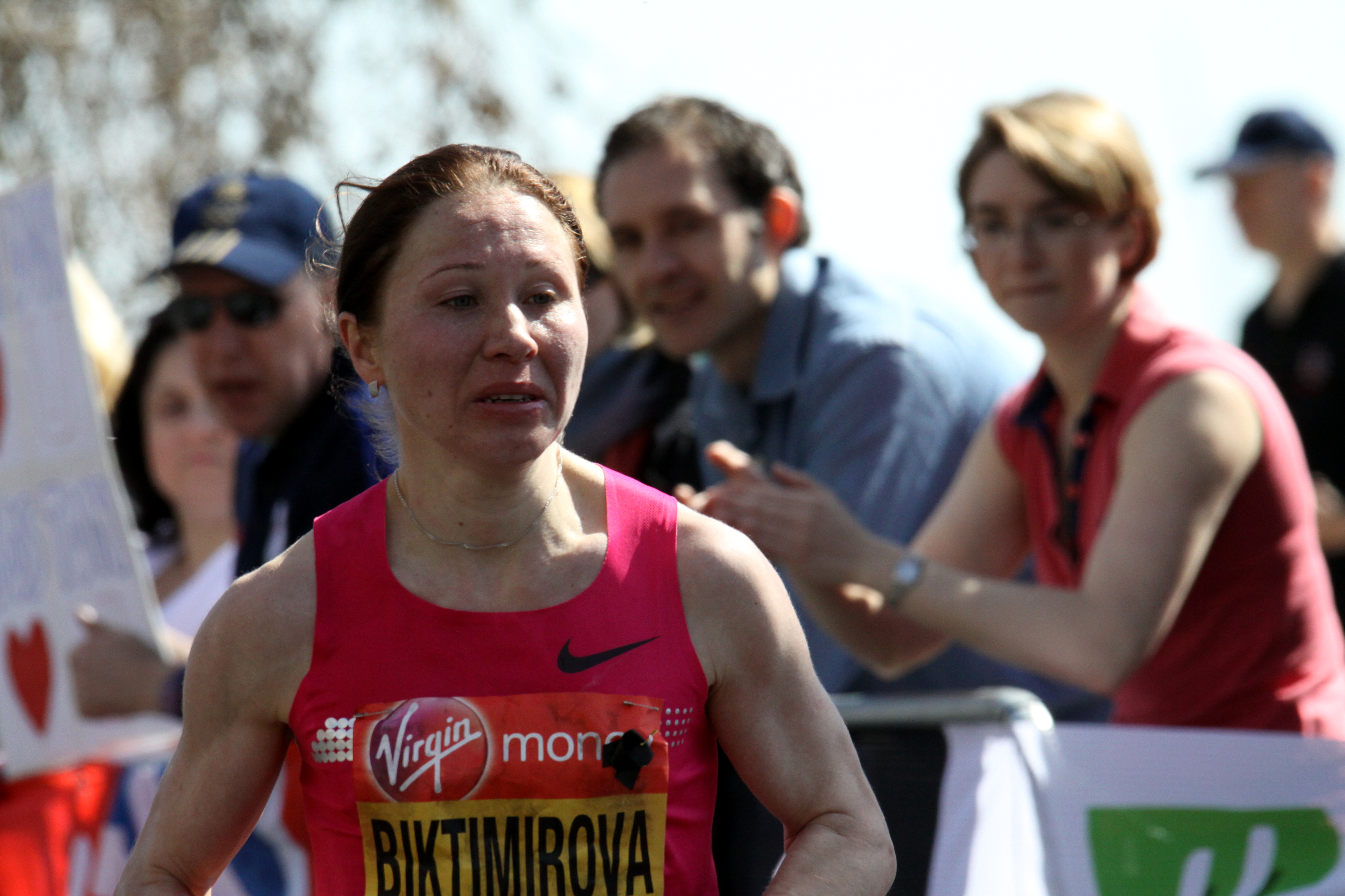 Alevtina Biktimirova during 2013 London Marathon, photographed at Victoria Embankment, London, Great Britain. The making of this file was supported by Wikimedia UK.